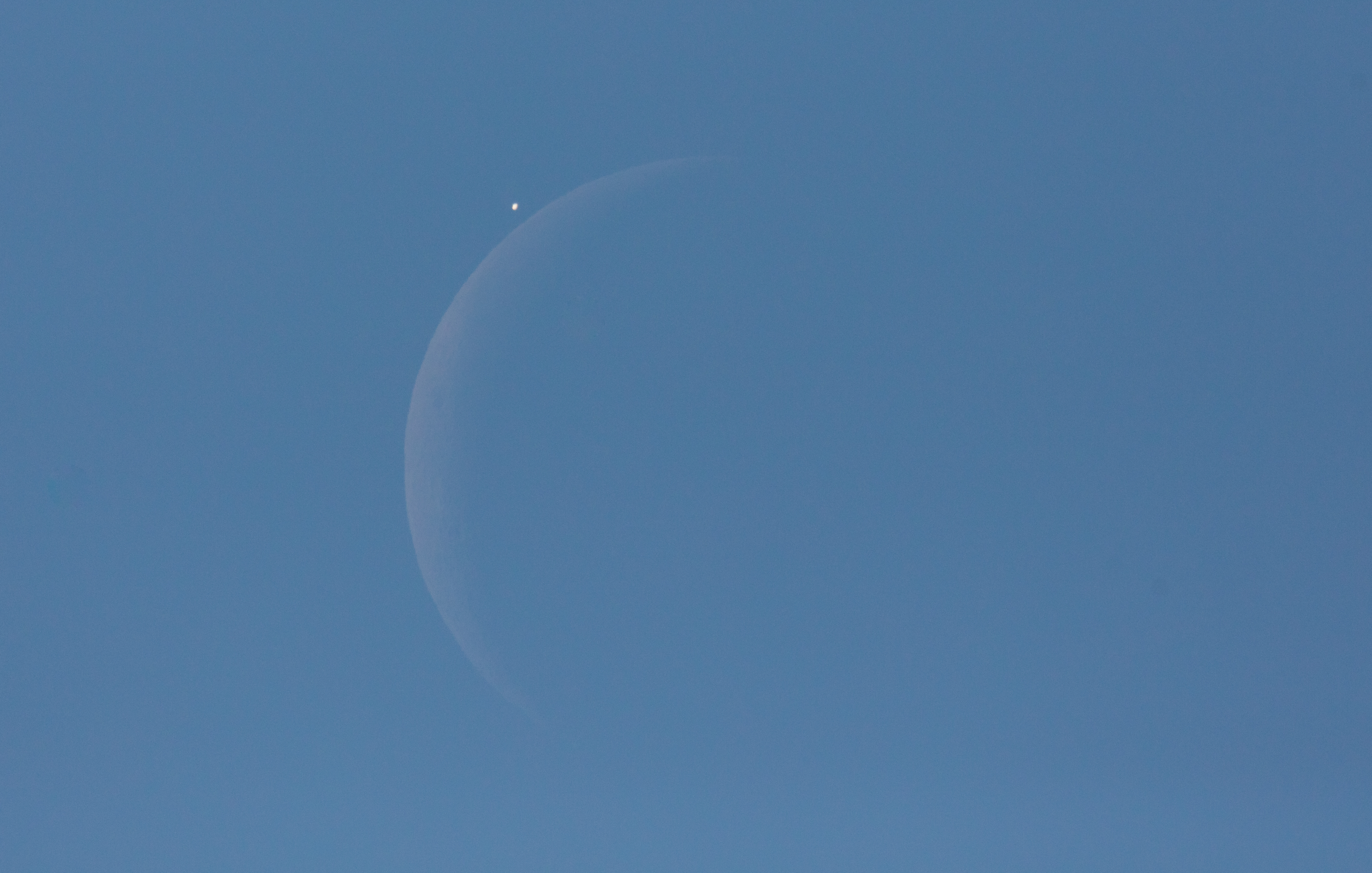 Venus is seen next to the crescent moon during the daytime, prior to the start of occultation, on Monday, Dec. 7, 2015 in Washington, D.C. The moon occulted, or passed in front of, Venus for the second time this year.